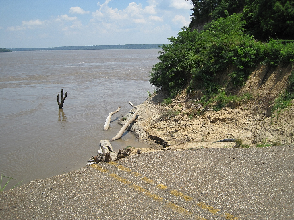 Western terminus of TN 59 in Gilt Edge, Tennessee at the second Chickasaw Bluff.